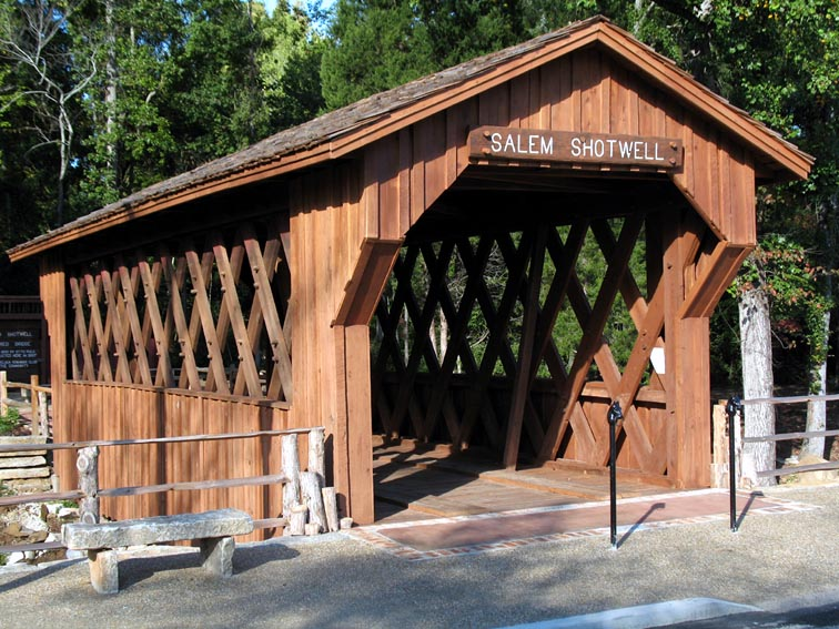 A photo of the Salem-Shotwell Covered Bridge in Lee County, Alabama. It was taken by M.L. Devall in October 2007.